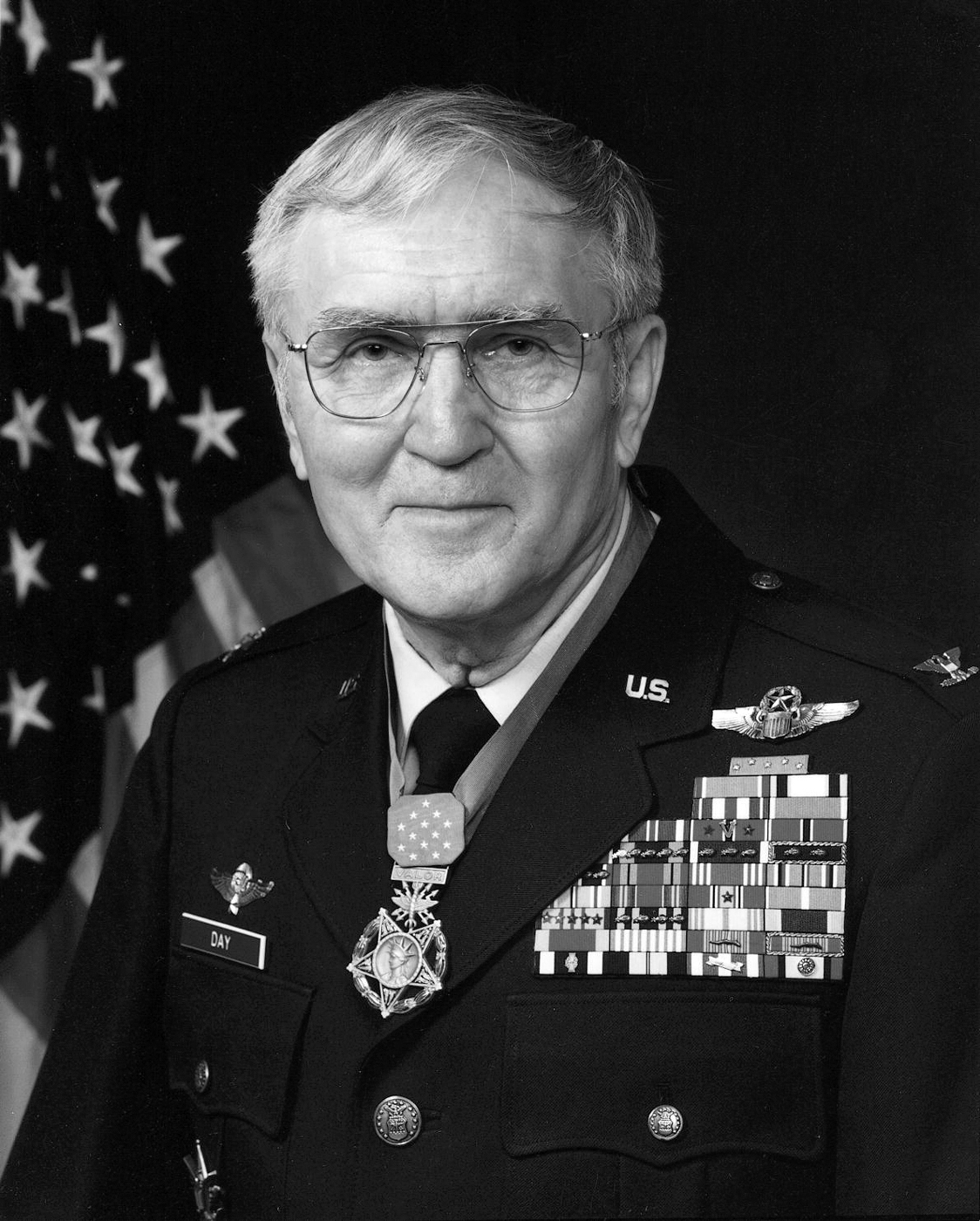 Portrait of USAF Colonel George Everett "Bud" Day